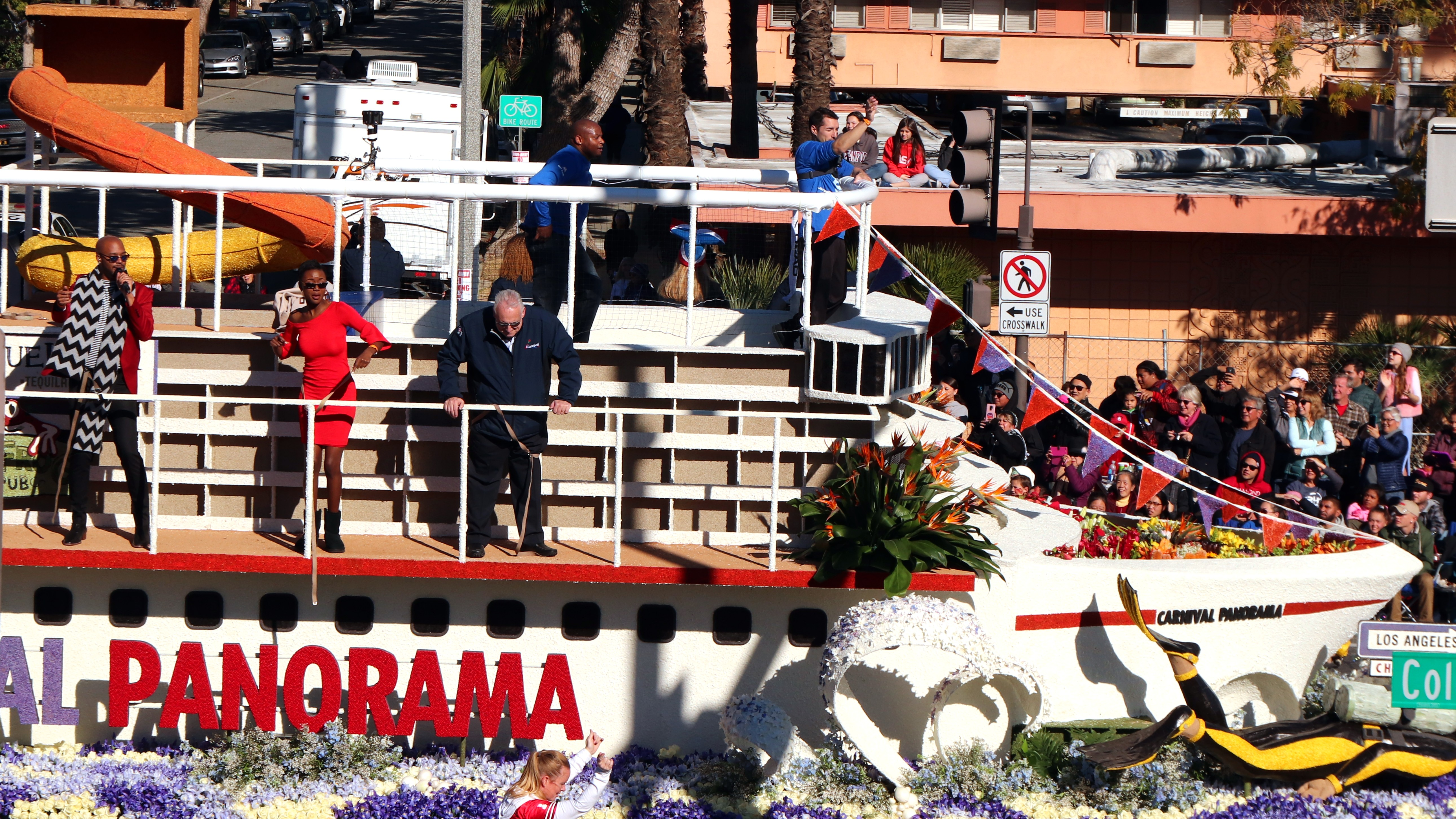 Rose Parade 2019 Pasadena, California The REAL Carnival Panorama, 133,500 gross-ton cruise ship, is currently under construction. In 2019 she will be coming to Port of Long Beach, in Los Angeles, California